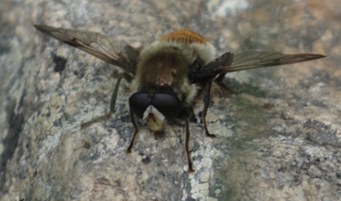 Male Arctophila flagrans (a flower fly), Santa Fe Ski Basin, Santa Fe National Forest, New Mexico. Same individual as File:Arctophila_flagrans_male_dorsal.jpg. Thanks to Gerard Pennards at for ID.